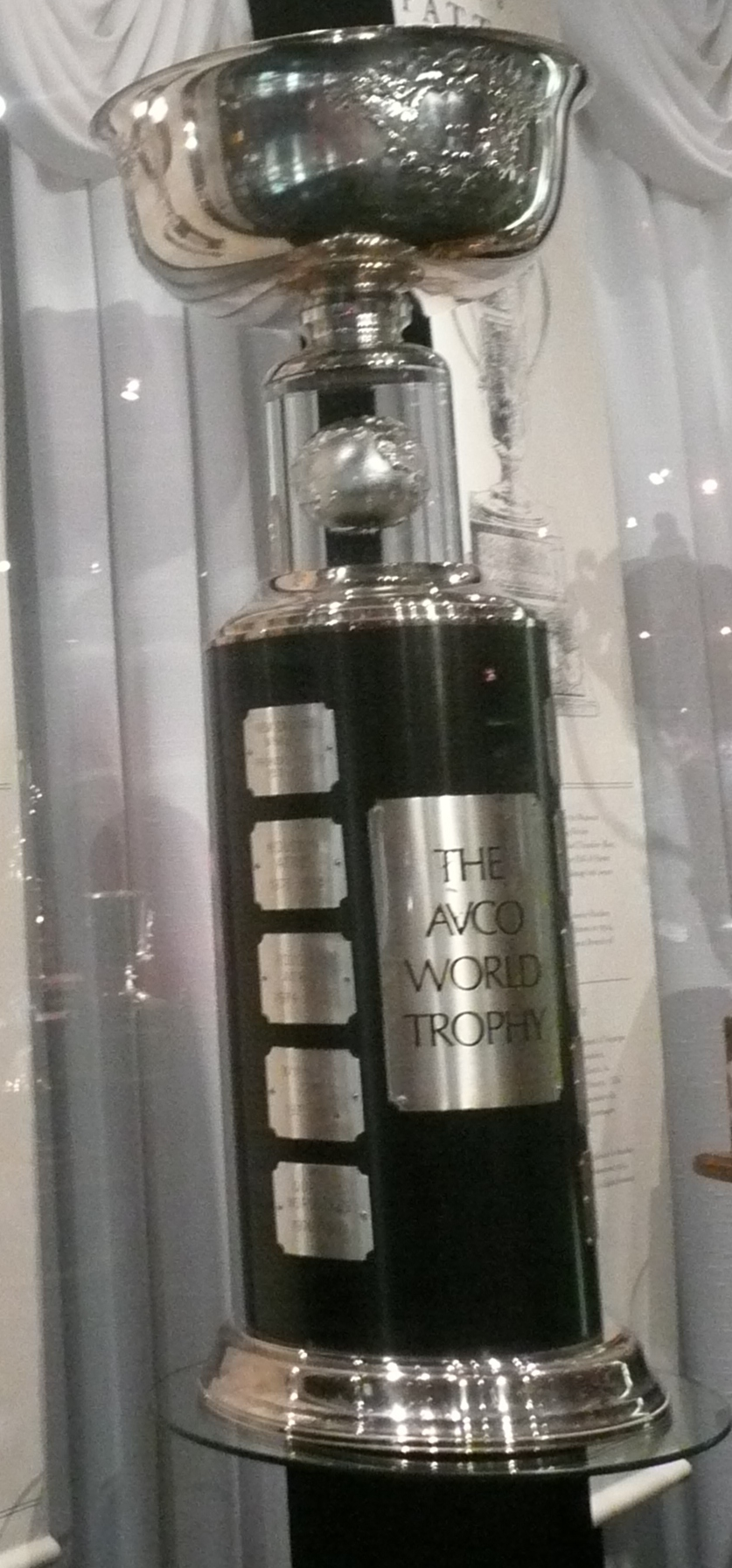 The Avco World Trophy on display at the Hockey Hall of Fame